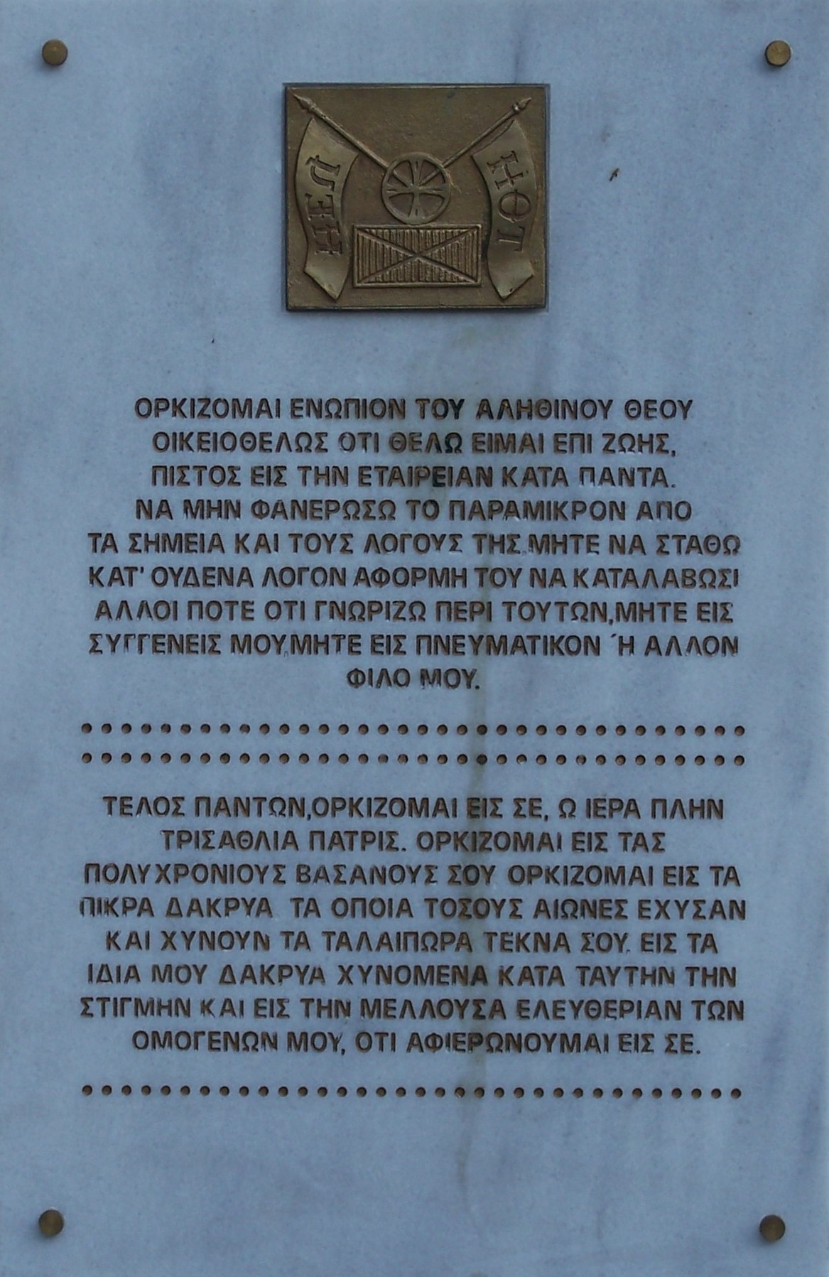 The oath of Filiki Eteria (Φιλική Εταιρία), an underground organization of the greek 1821 revolution, carved in stone at a monument in Kolonaki